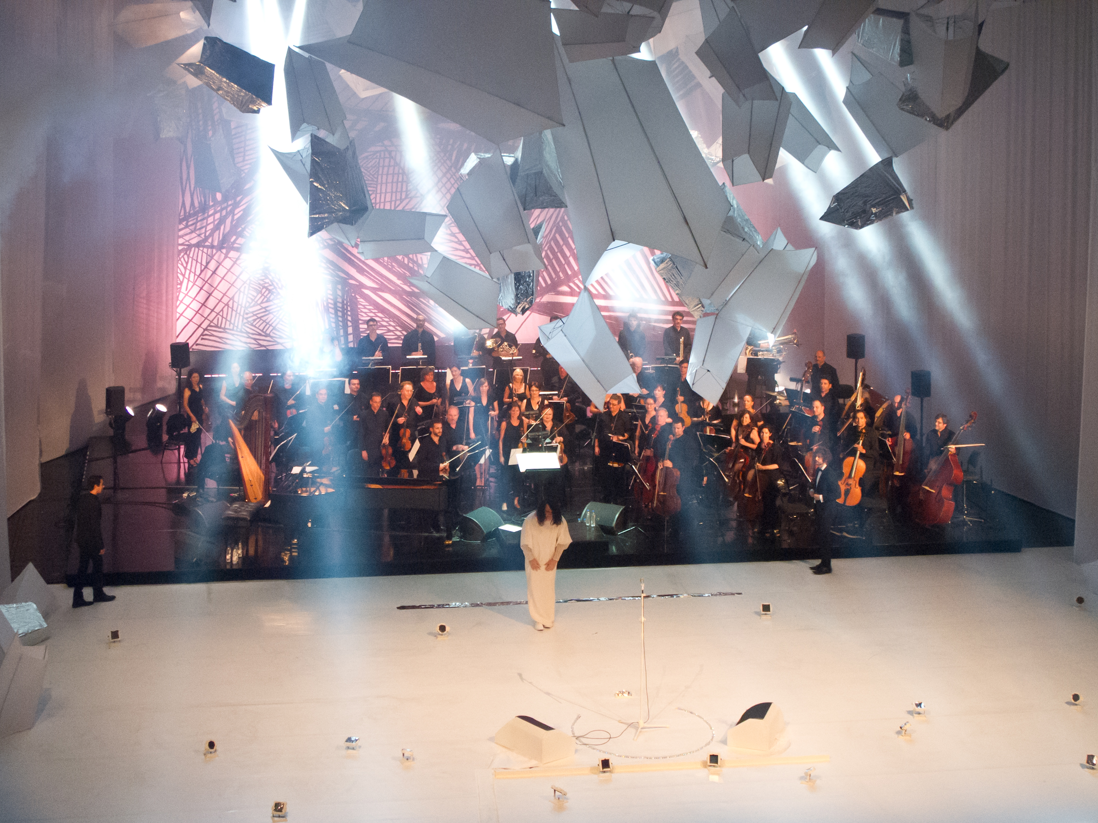 Antony and the Johnsons at theTeatro Real, Madrid, Spain.